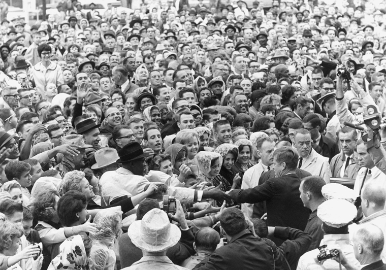 President John F. Kennedy at the "Parking Lot Rally," Friday morning, 22 November 1963, Fort Worth, Texas, outside of the Hotel Texas. (The photo was taken a few minutes before JFK's "formal speech" given during the Fort Worth Chamber of Commerce Breakfast inside the hotel.)